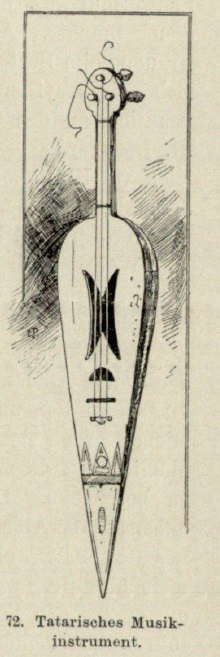 Скрипка, на которой играл Исмаил Урусбиев Из книги Merzbacher, Gottfried.Aus Den Hochregionen Des Kaukasus. 1901.